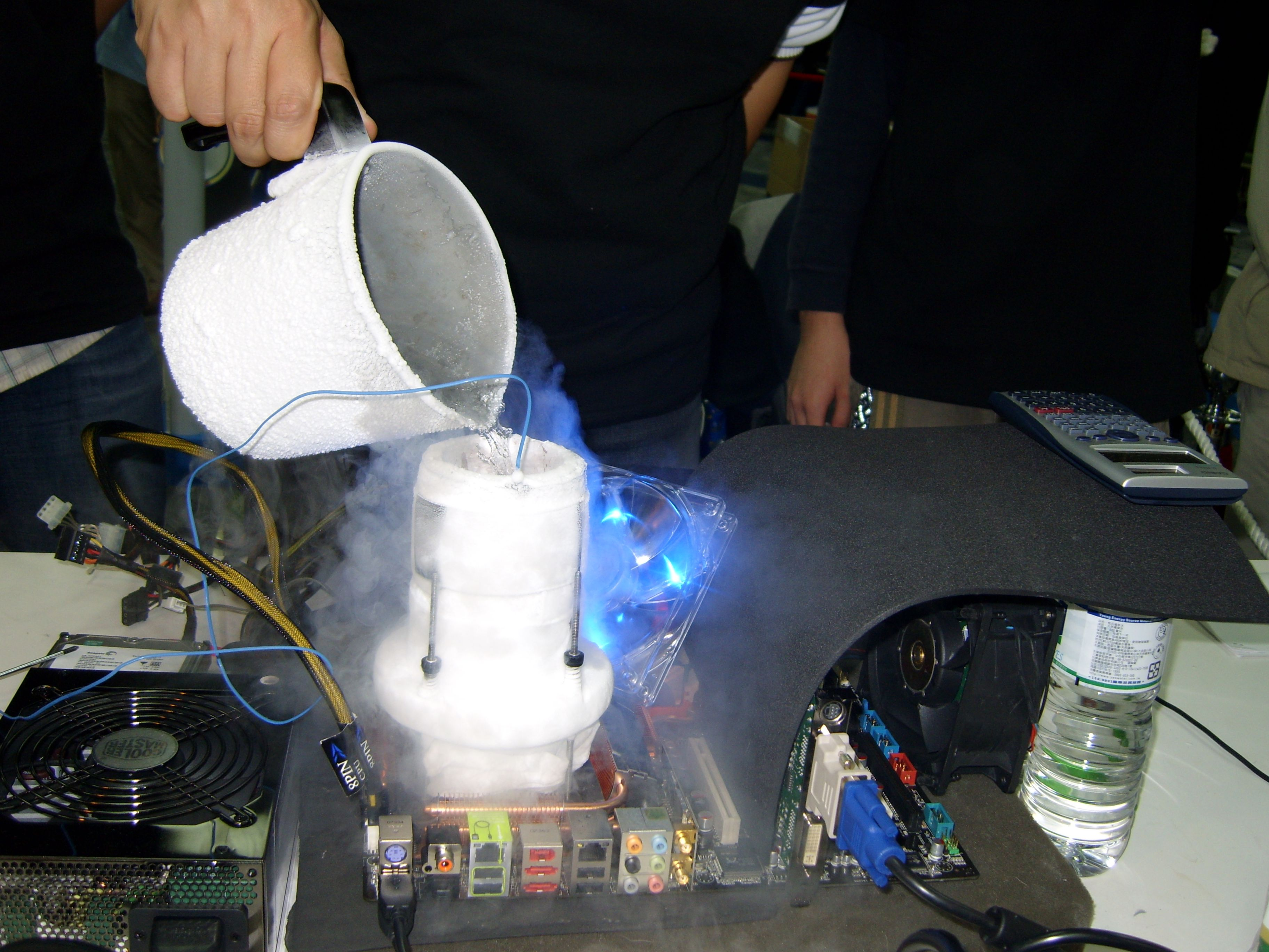 2007 Taipei IT Month: Intel Taiwan Overclocking Live Test Tournament.